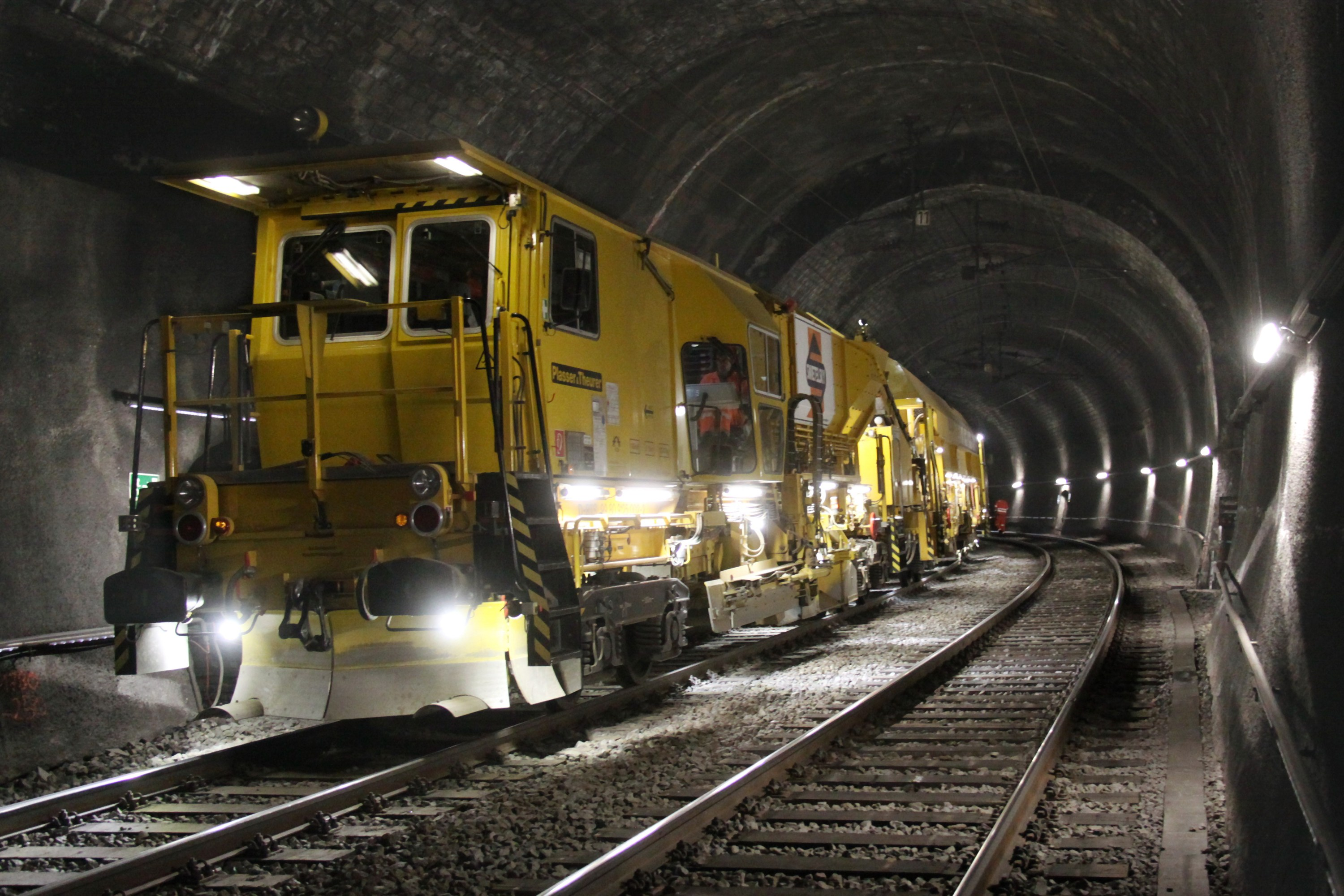 Semmering railway, rebuild track 1 between the stations Breitenstein and Semmering with ballast cleaning and cabling works. – The photo shows a machine gravel management system in the "Polleroswandtunnel".